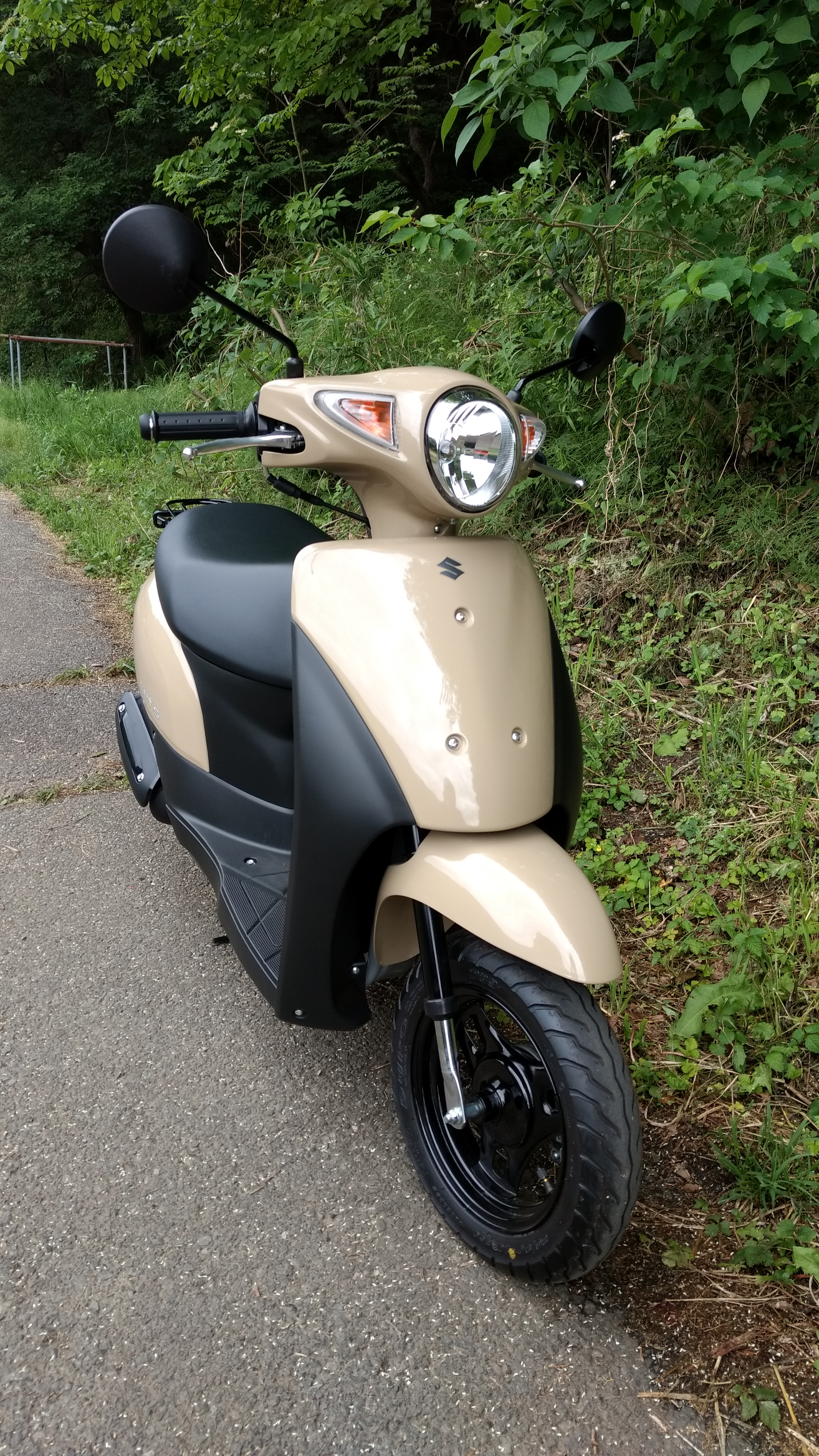 Suzuki Let's (2015). Location: Yokohama, Kanagawa, Japan.